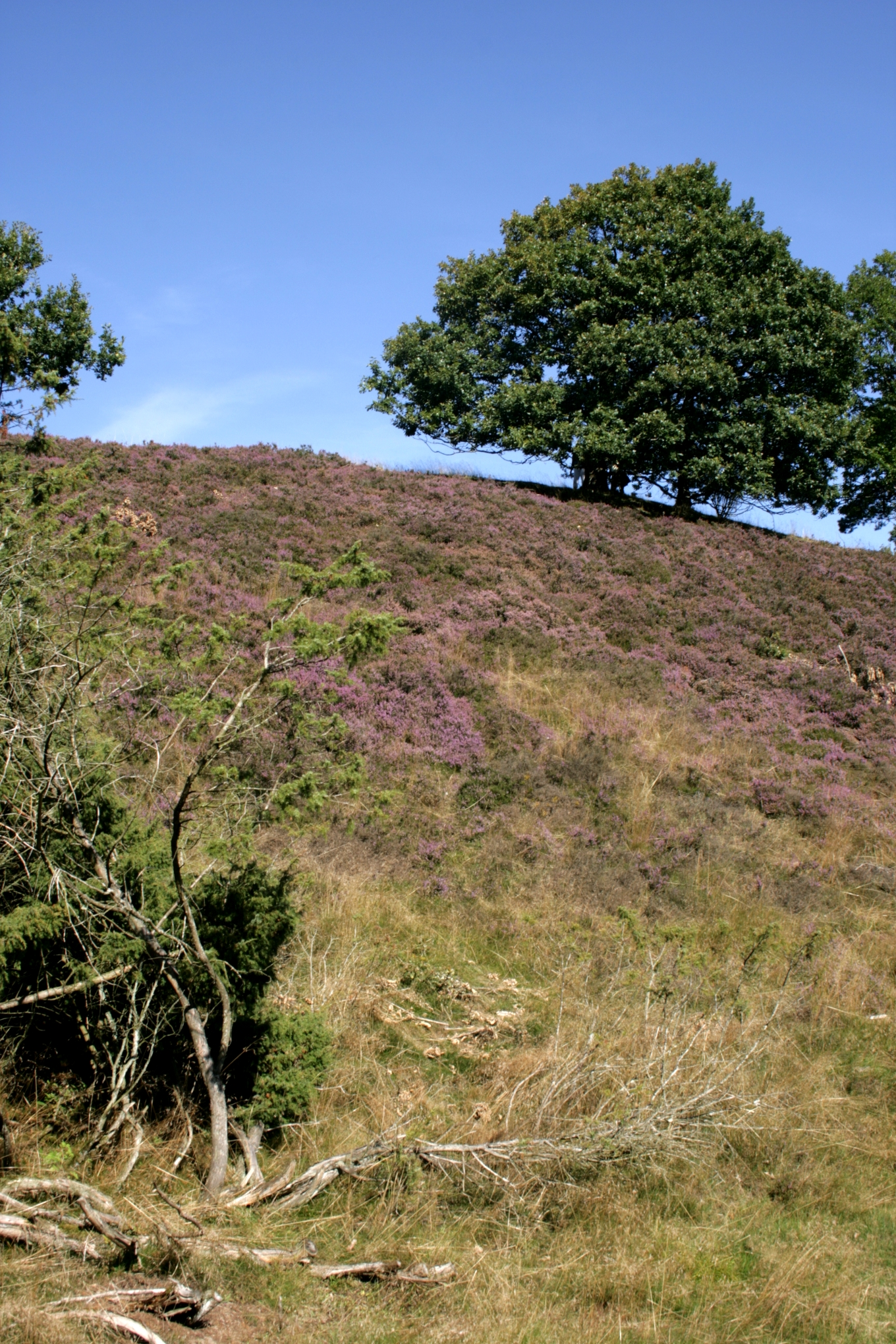 Dollerup Bakker, near Viborg, Jutland: An example of a succesfull Restoration ecology-project.